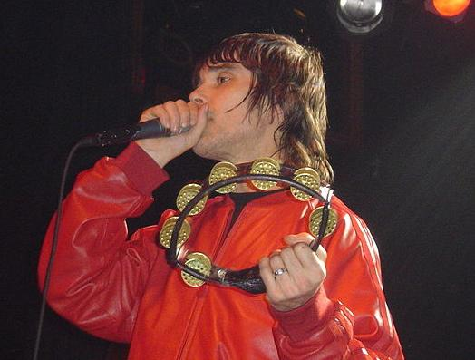 Mod Club Theatre, Toronto